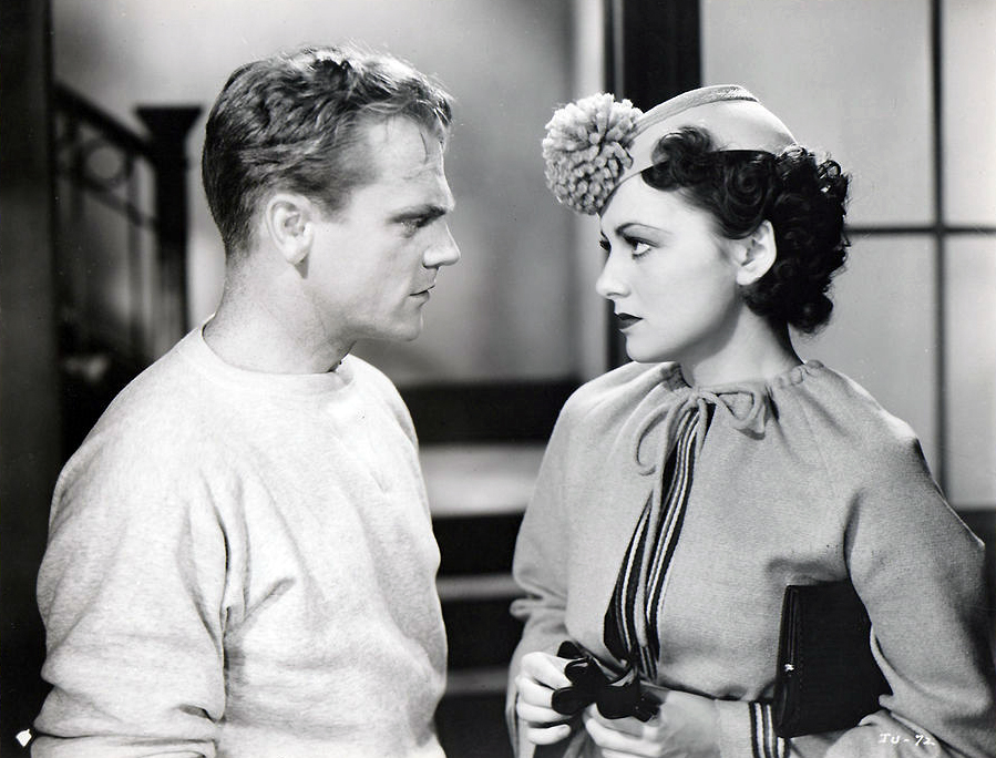 Olivia de Havilland and James Cagney publicity photo for the American film The Irish in Us (1935).